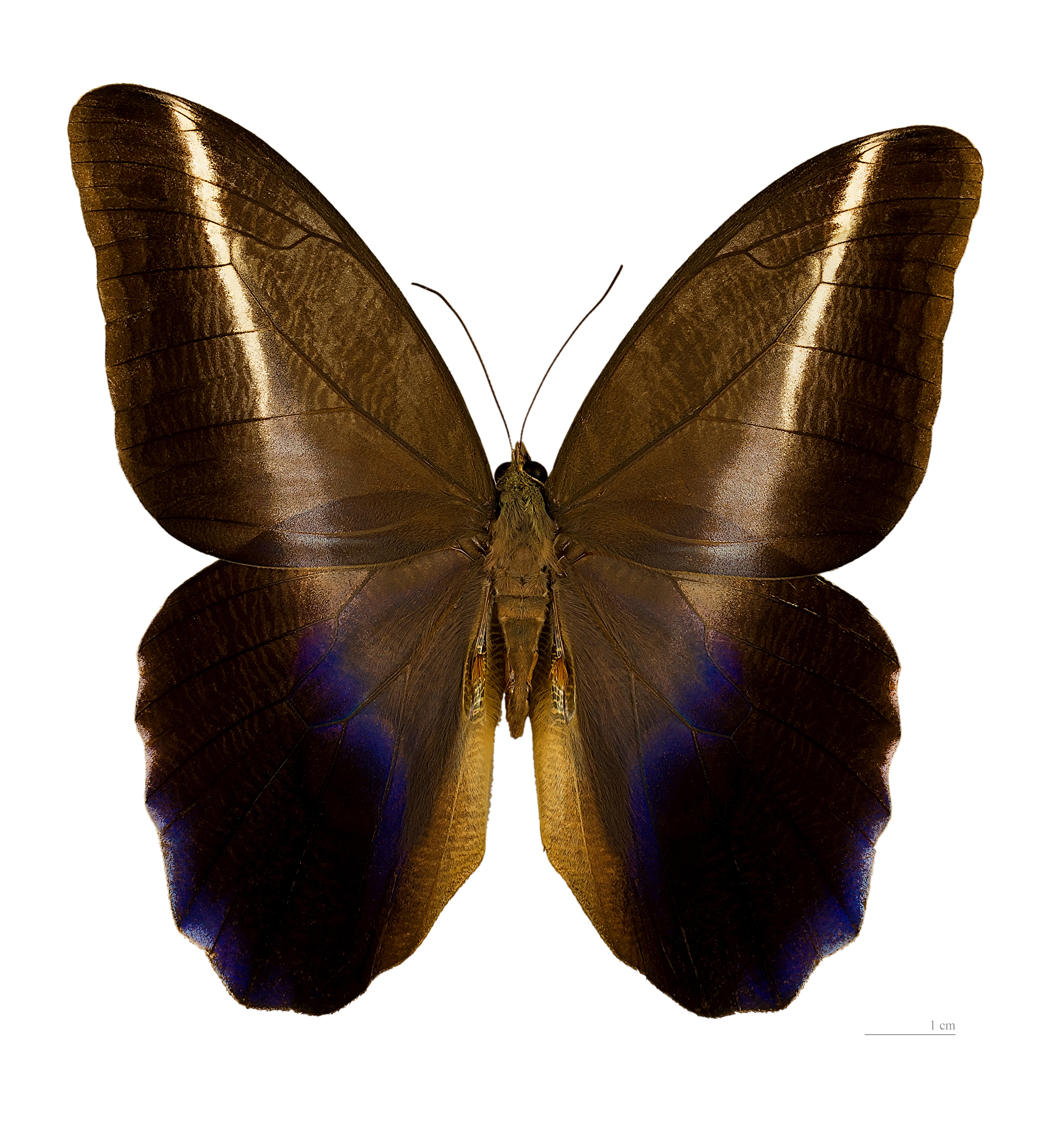 Idomeneus Giant Owl - Dorsal side